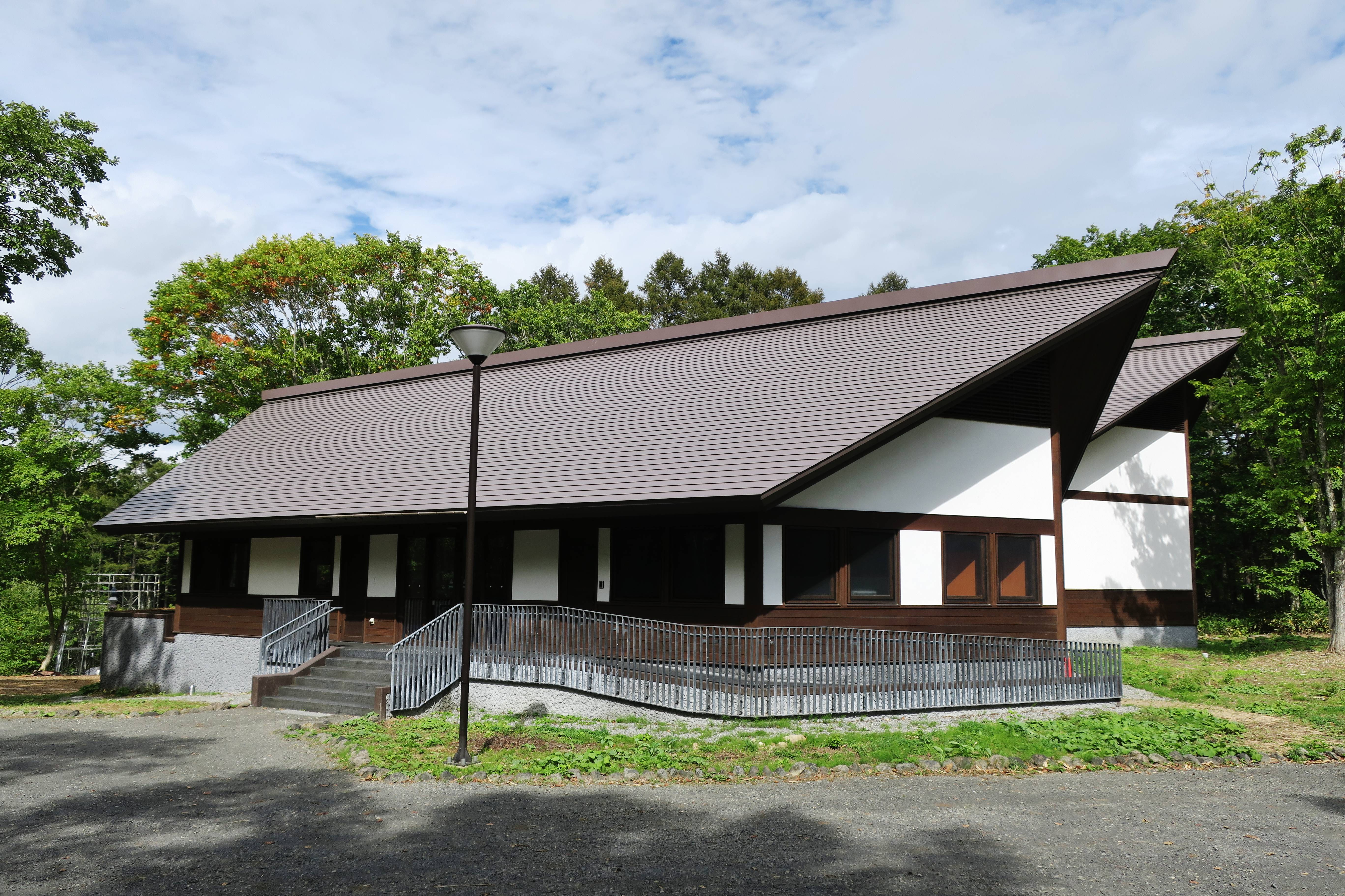 Kitano Museum of Art Togakushi (Nagano, Nagano).